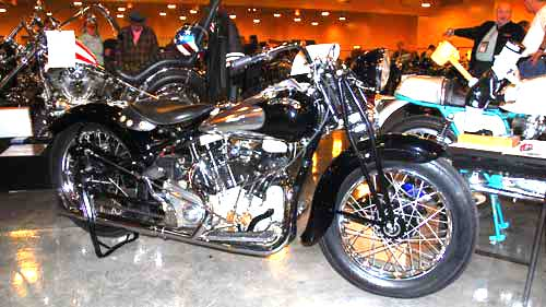 Photo © by Jeff Dean